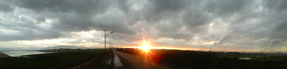 Sun Rise in Putka Hill Range Korba Under Cloudy Morning